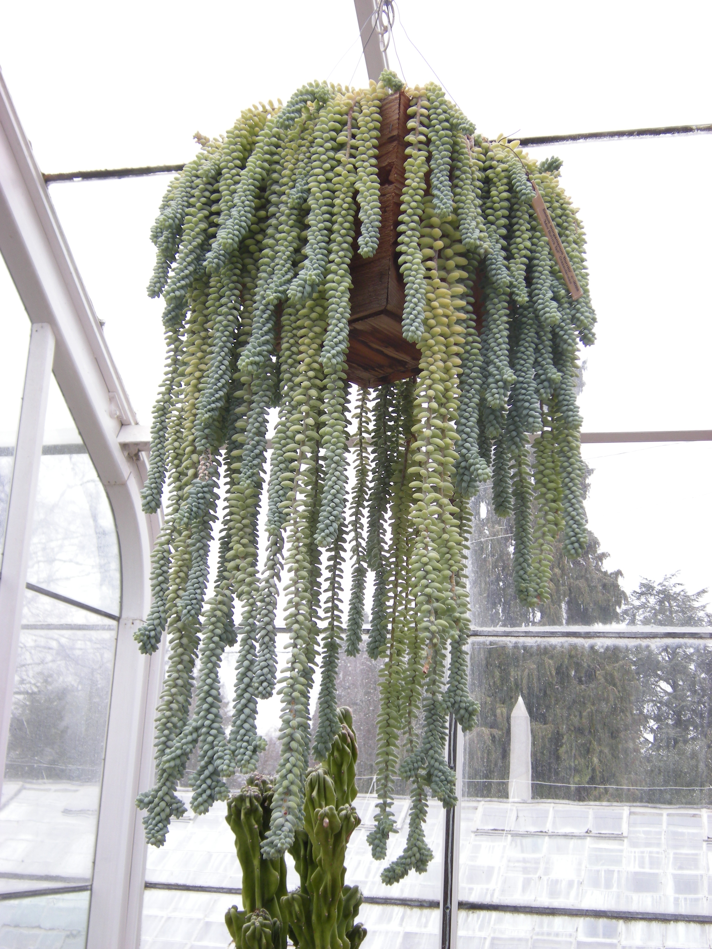 Sedum morganianum 'Burrito' c-3098. Photographed at Volunteer Park Conservatory, Seattle, Washington.